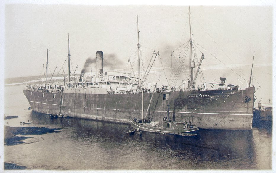 Postcard picture of SS Mount Temple aground at West Ironbound Island, Nova Scotia